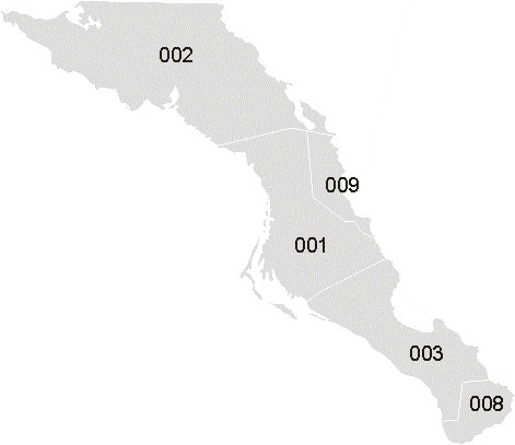 Map of the Municipalties of the State of Baja California Sur, México.